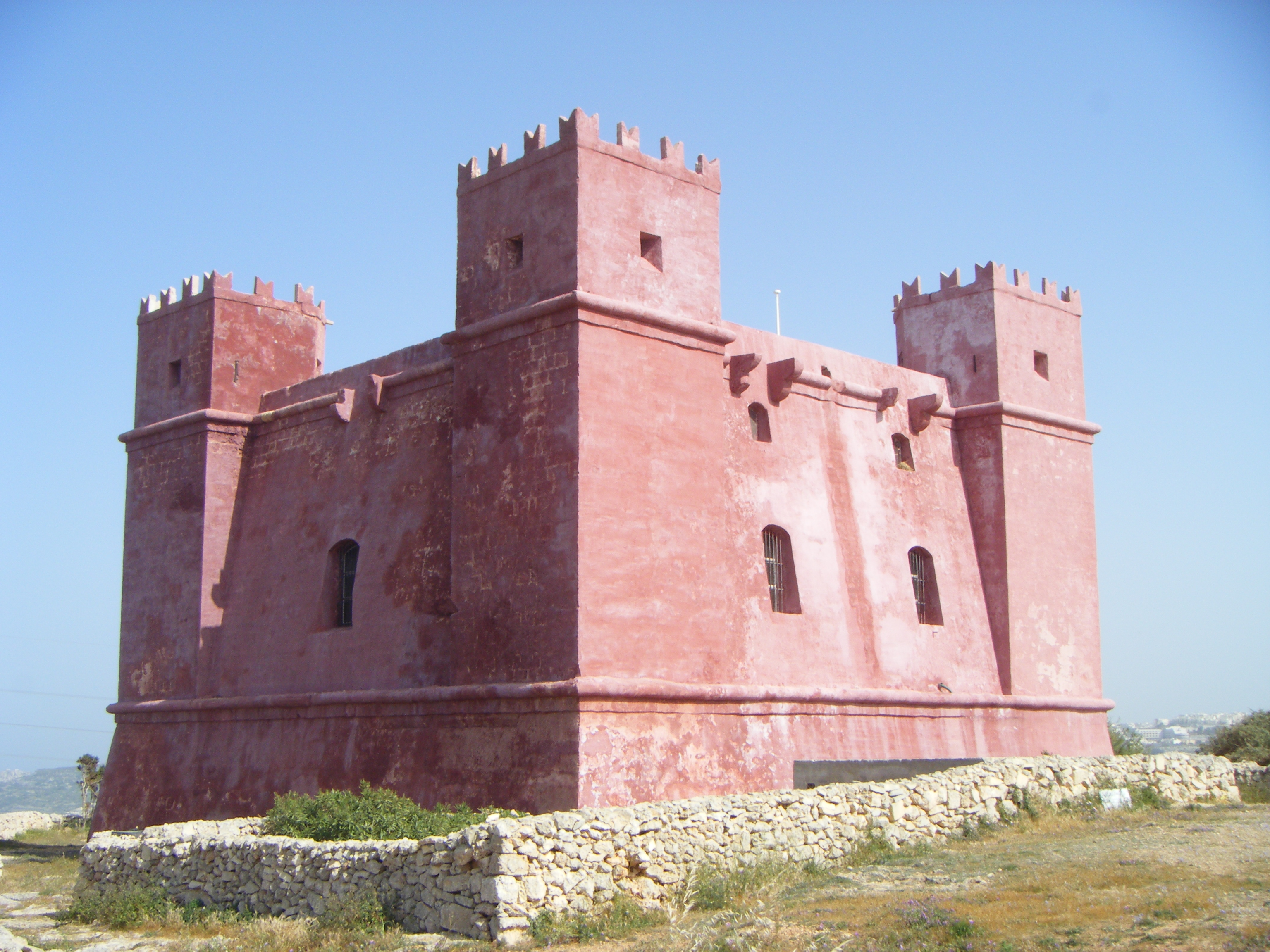 North West Side of St. Agatha's Tower, Malta This media is about Maltese cultural property with inventory number 33.